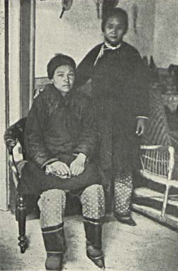 The "Chinese of the Worms", Ajus and Joé, Chinese healers that were the subject of much contention in Portugal, in 1911.